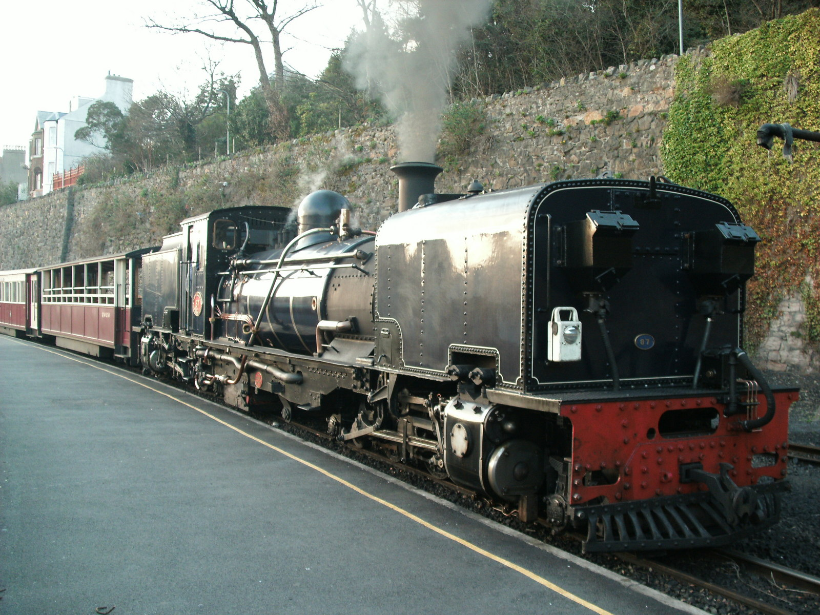 Welsh Highland Railway steam loco at Caernarfon